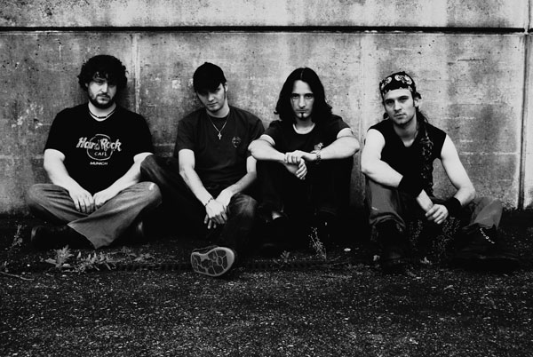 Excentric, Rock Band from Switzerland, 2008